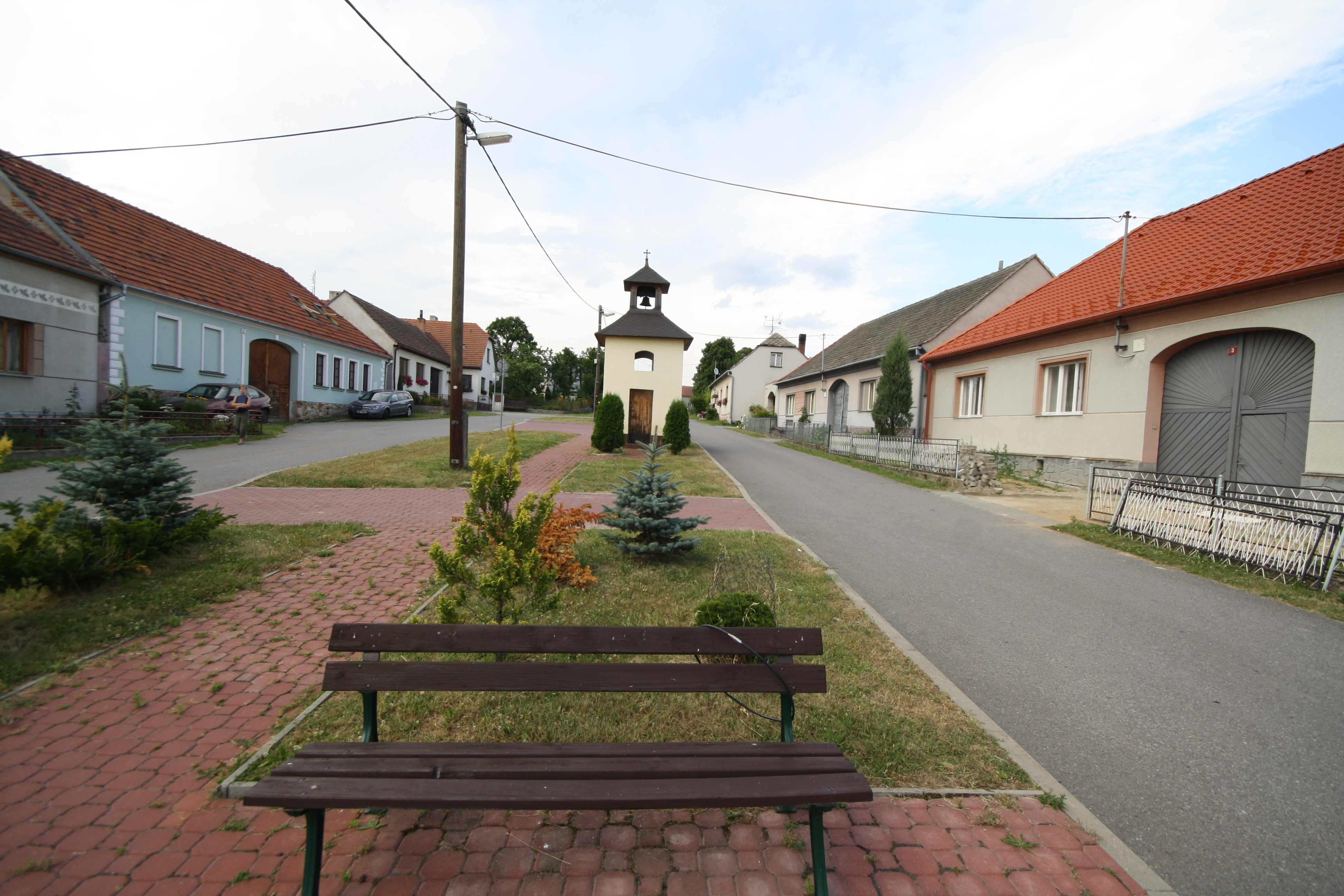 Village square of Jedov, Náměšť nad Oslavou.